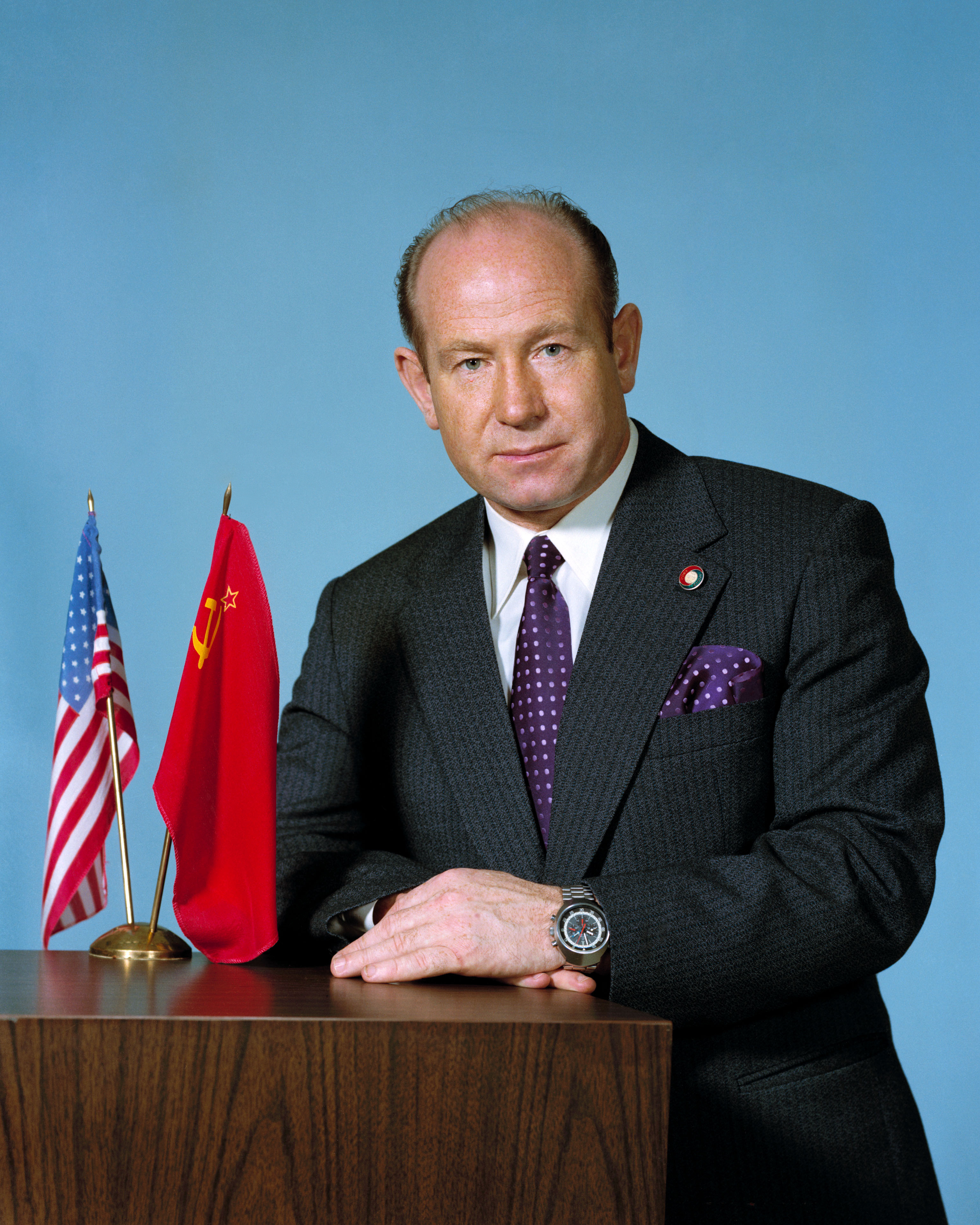 Alexei Leonov in April 1974. Leonov is wearing a pin with a version of the emblem for the Apollo–Soyuz Test Project, then in development. The emblem can be found at File:Apollo-Soyuz Test Project patch.svg.